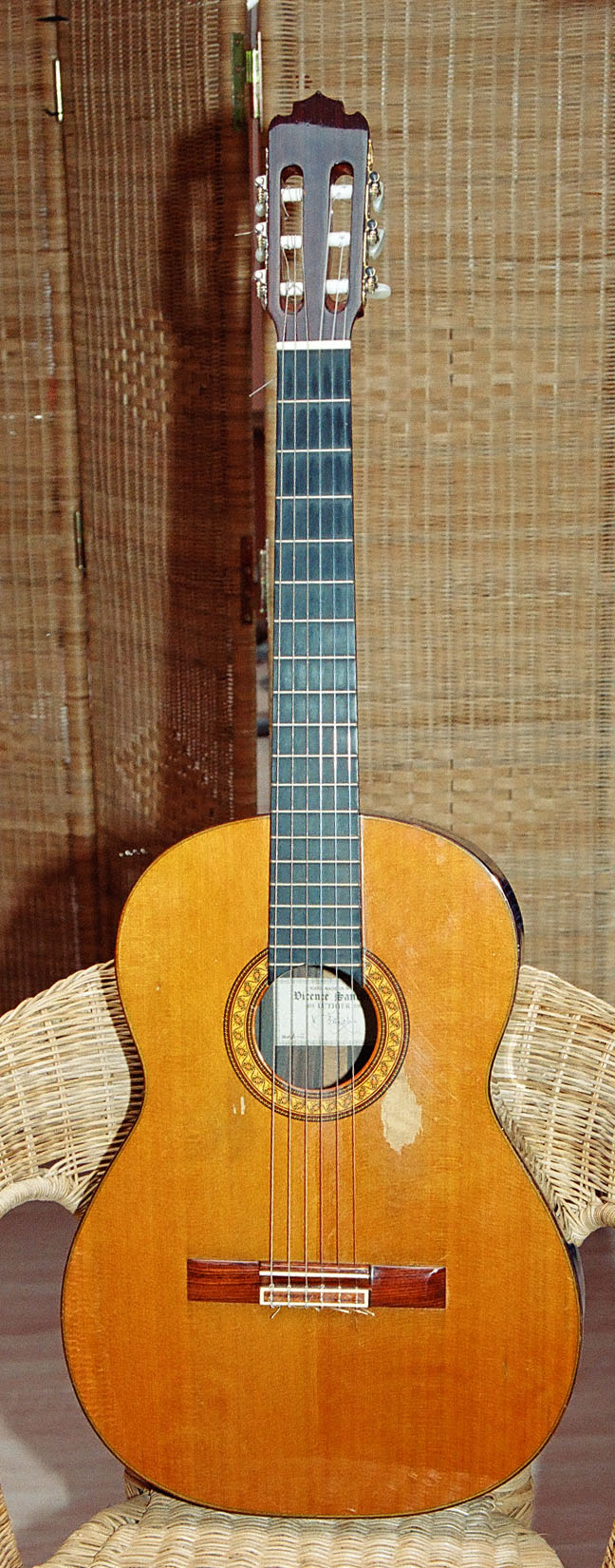 The guitar of Jacek Kaczmarski, a Polish bard and poet